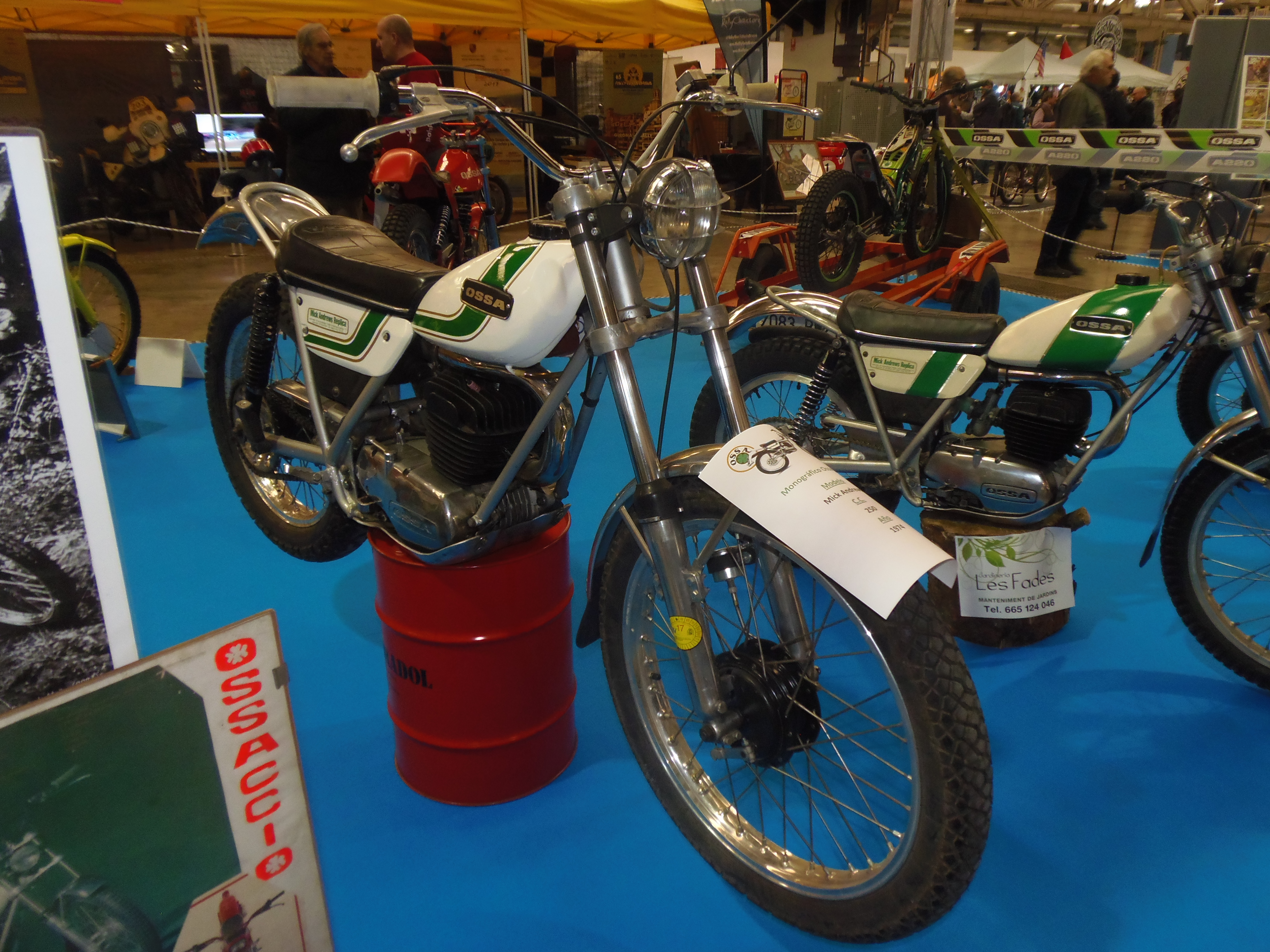 OSSA MAR 250/74, 1974